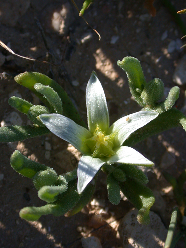 Aizoon hispanicum L. (חיעד ספרדי), Northern Negev, Israel, March 3, 2007.